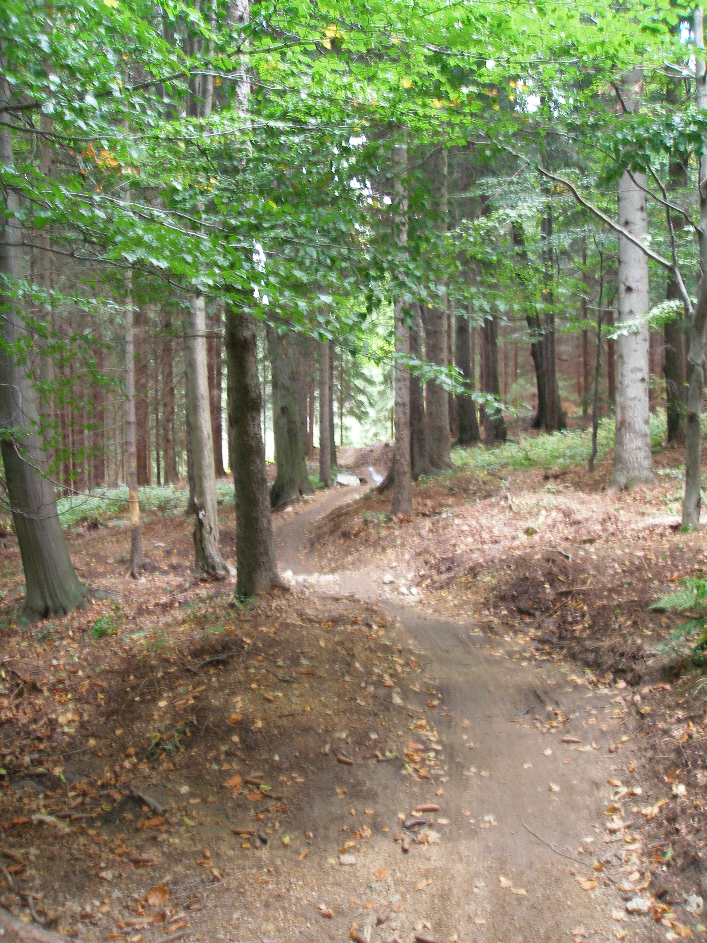 Singltrek pod Smrkem, Jizera Mountains, Lázně Libverda